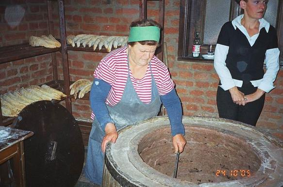 Georgian backery (Shoti bread)